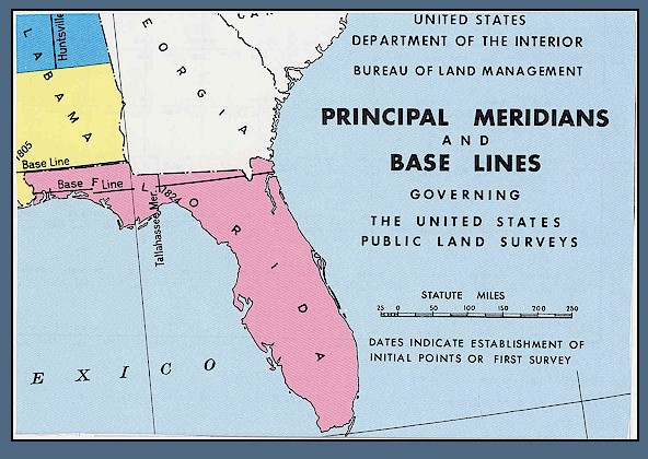 U.S. Bureau of Land Management map showing principal meridians and base lines used for cadastral surveys.